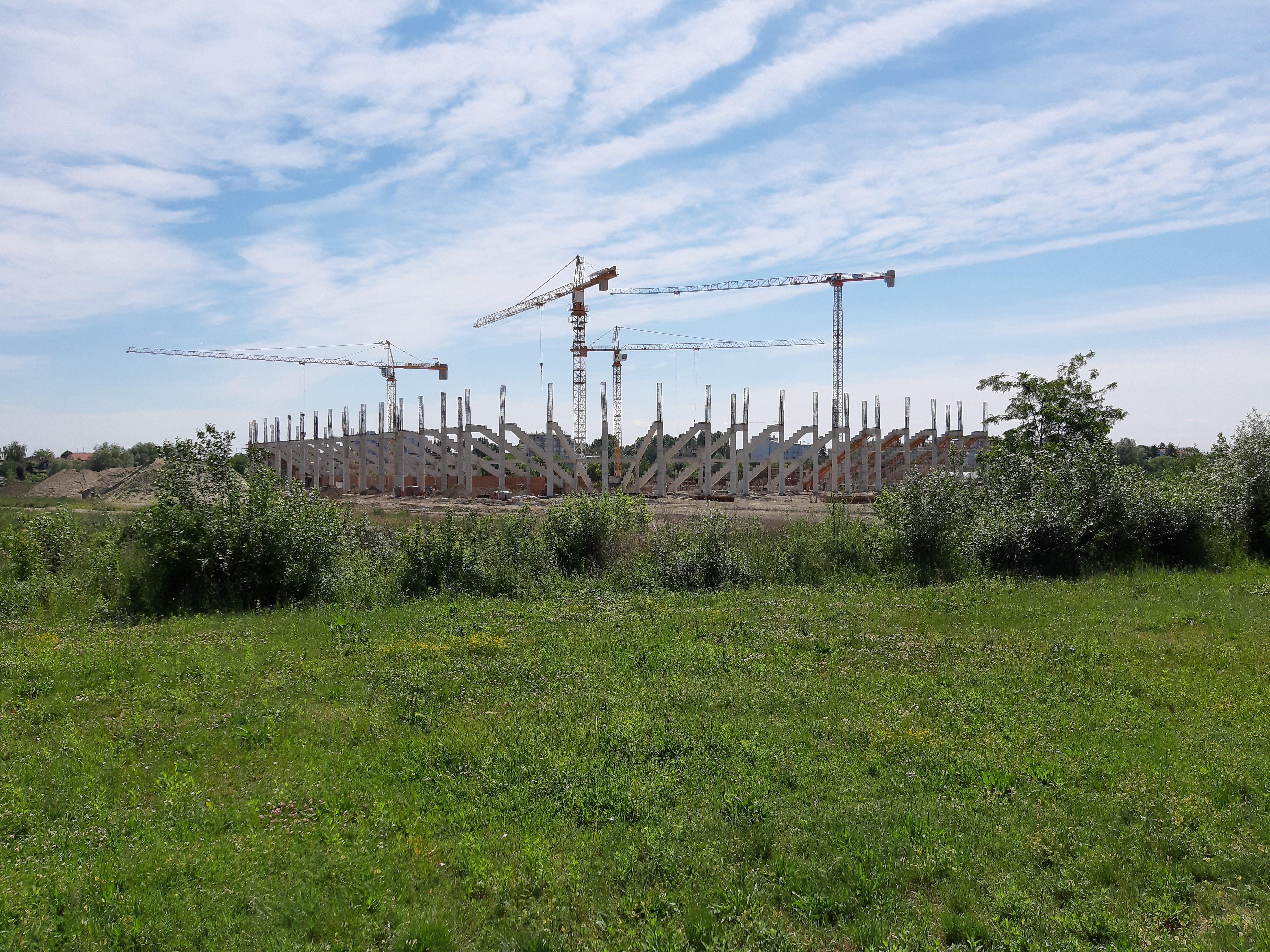 Construction of Stadion Pampas in Osijek, Croatia.